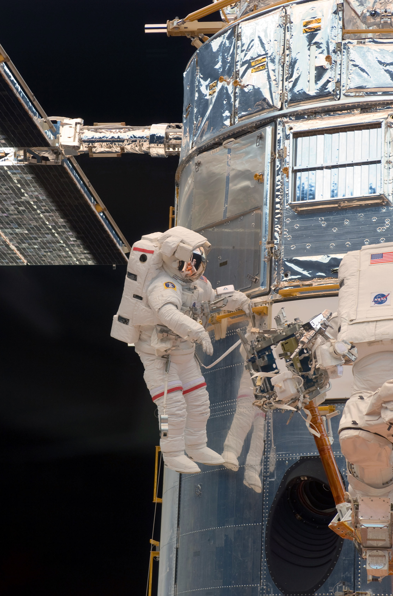 Astronaut John Grunsfeld performs work on the Hubble Space Telescope during the first of five STS-125 spacewalks.